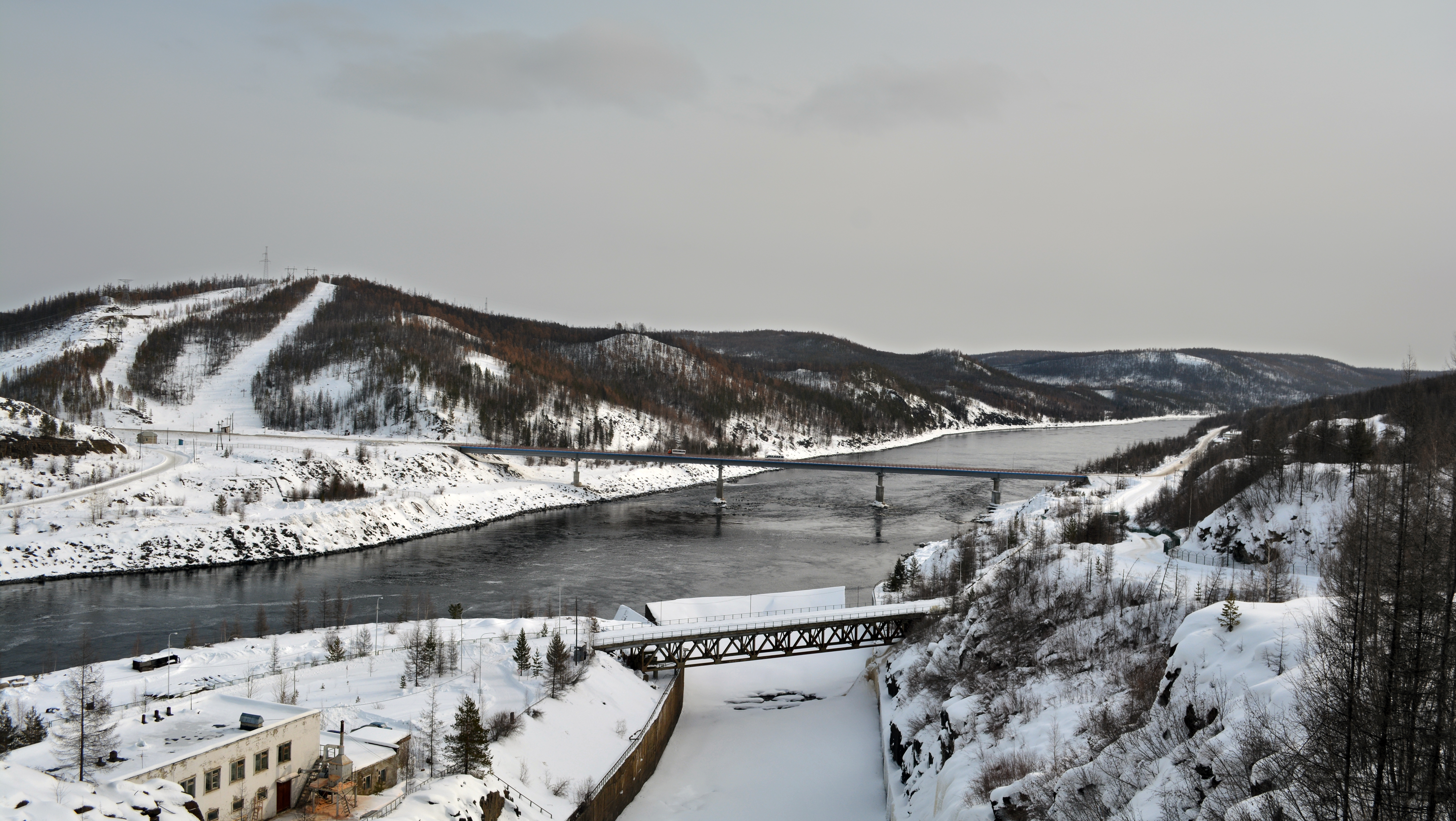 Vilyuy River, Sakha (Yakutia) Republic, Russia